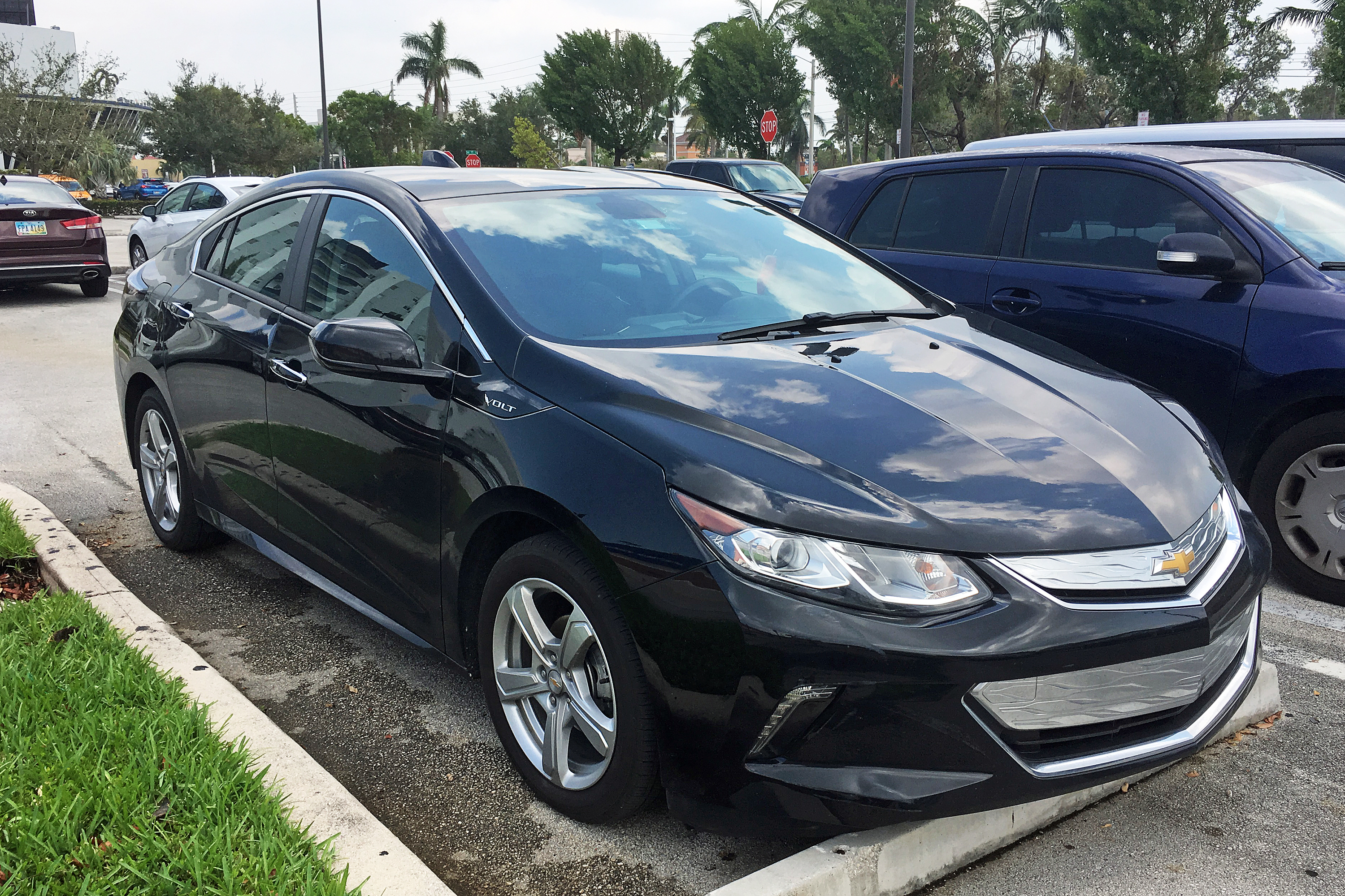 Chevrolet Volt in Miami, Florida